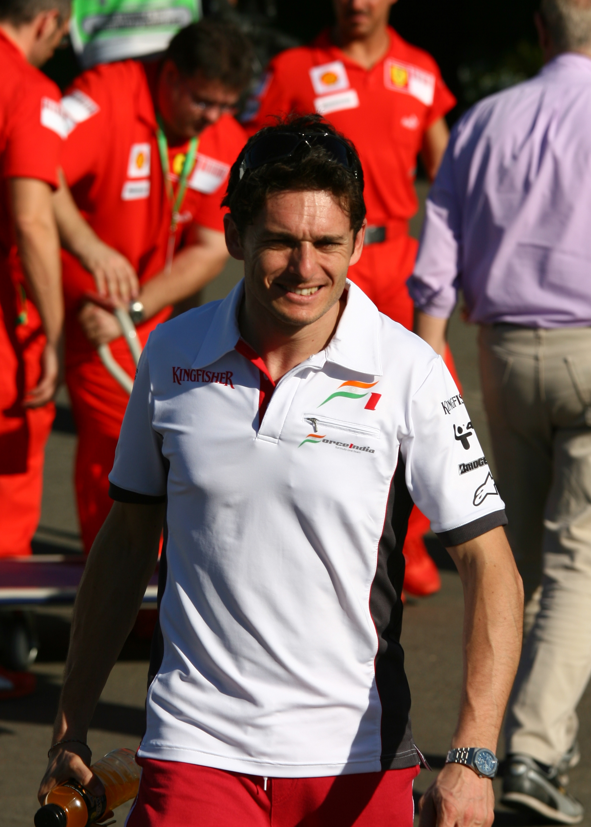 Giancarlo Fisichella at the 2008 Australian Grand Prix.